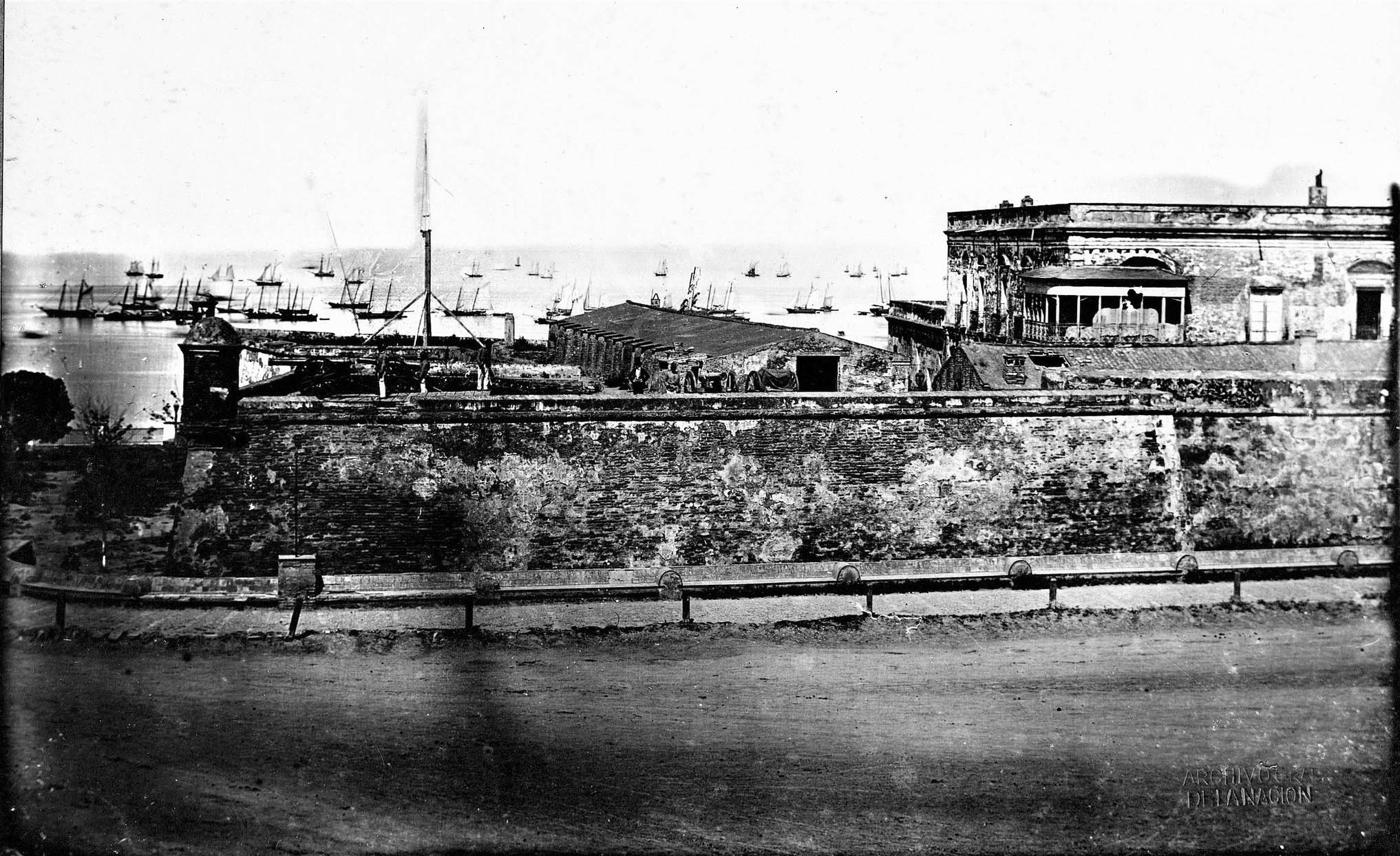 North-west view of the Fort of Buenos Aires.